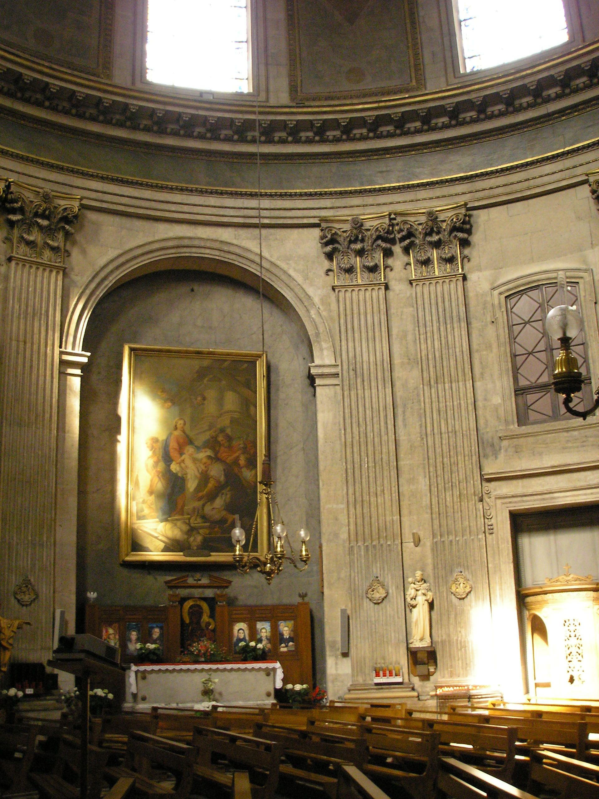 Interior view of the Chapelle de l'Assomption in Paris, popularly known as the Polish Church. In the Fabourg du St. Honoré.